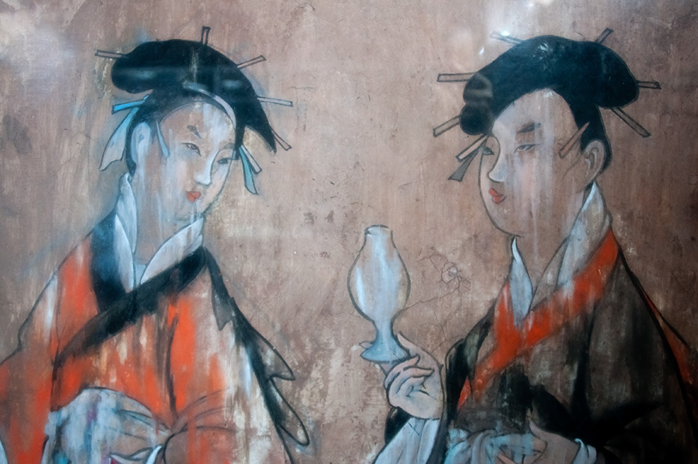 The Dahuting Tomb (Chinese: 打虎亭汉墓, Pinyin: Dahuting Han mu; Wade-Giles: Tahut'ing Han mu) of the late Eastern Han Dynasty (25-220 AD), located in Zhengzhou, Henan province, China, was excavated in 1960-1961 and contains vault-arched burial chambers decorated with murals showing scenes of daily life. For further information, see the Baidu article (in Chinese): 打虎亭汉墓. Click here for more pictures and a step-by-step walkthrough of the tomb, from the outside, down a stairwell, and through the vaulted burial chambers.